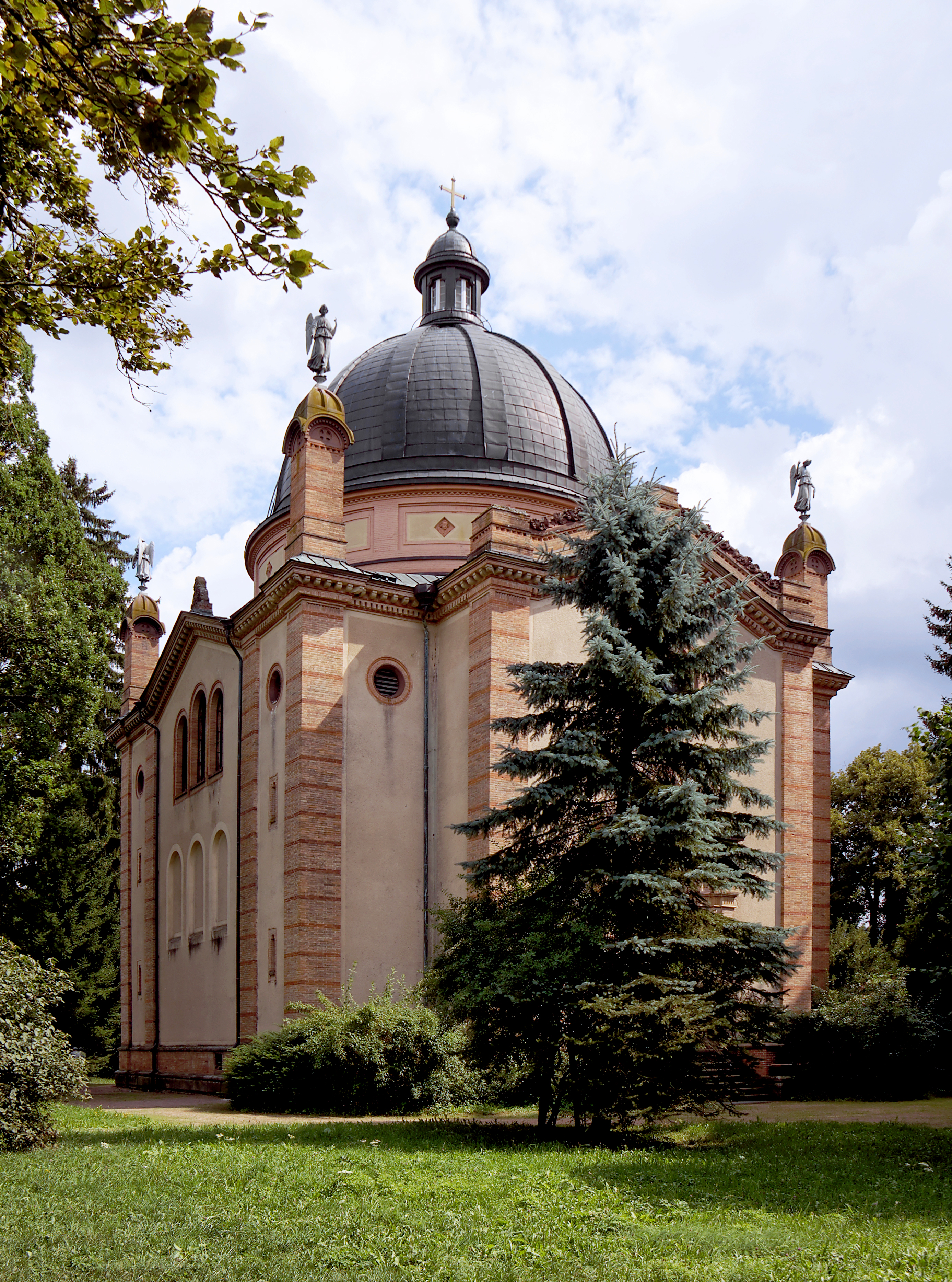 Burial church of the princely House of Fürstenberg at Neudingen, Southern Germany. The actual church was erected by the Counts Karl Egon II. and Karl Egon III. from 1853 to 1856 at the place of a monastery church, which burned down in 1852.